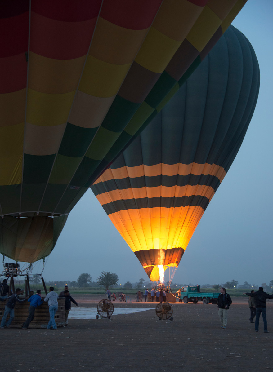 Ultramagic N-425 balloon, registration SU-283, in Luxor being filled in with gas on the morning of 26 February. At 07:00 EST on that morning, this balloon would crash, killing 19 people, and seriously injuring 2.